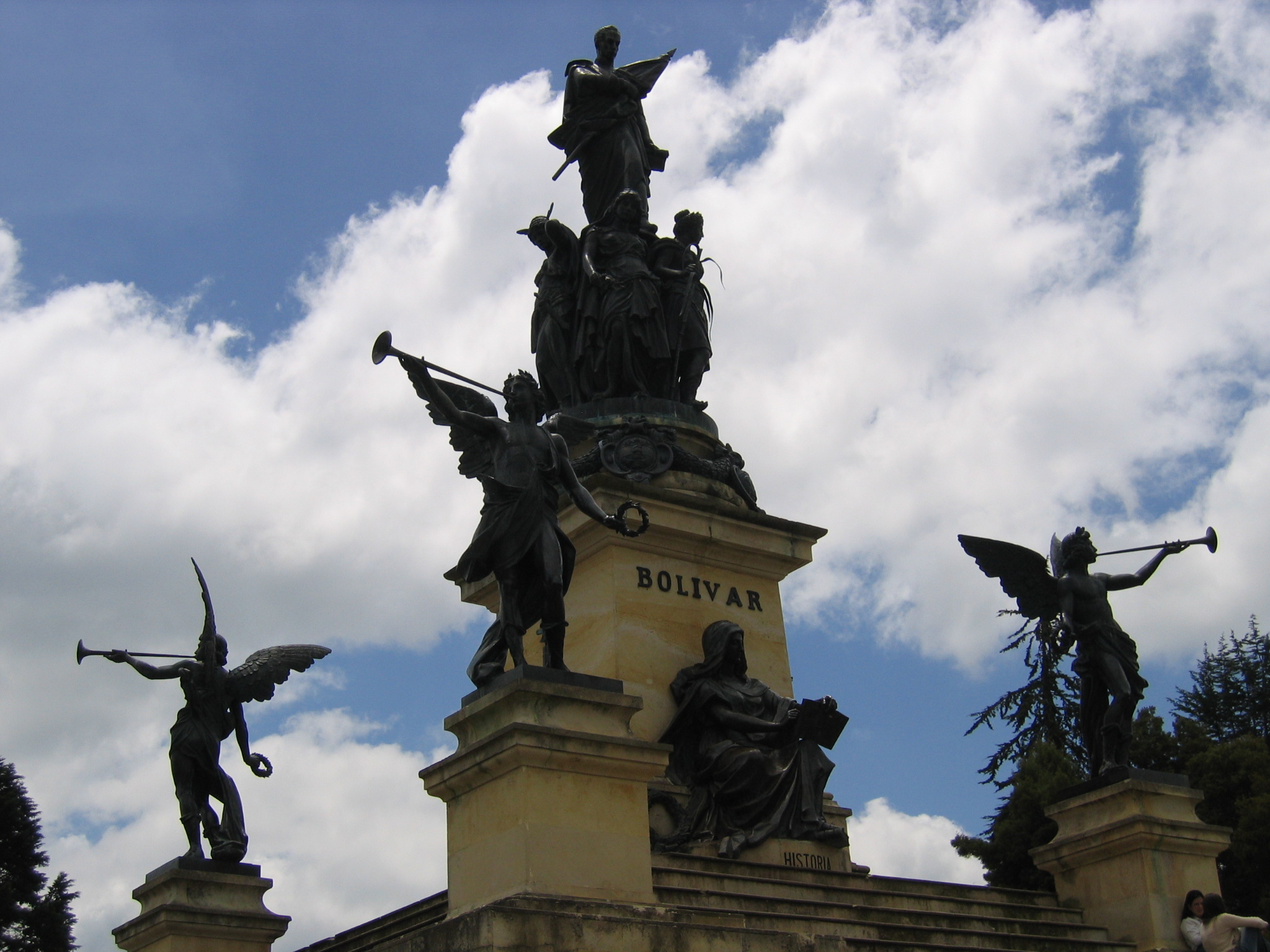 This is the Bolivar monument near Boyaca Bridge in Colombia, where Colombian independence was won against the Spanish army. Taken by Luis Fernando Londono.